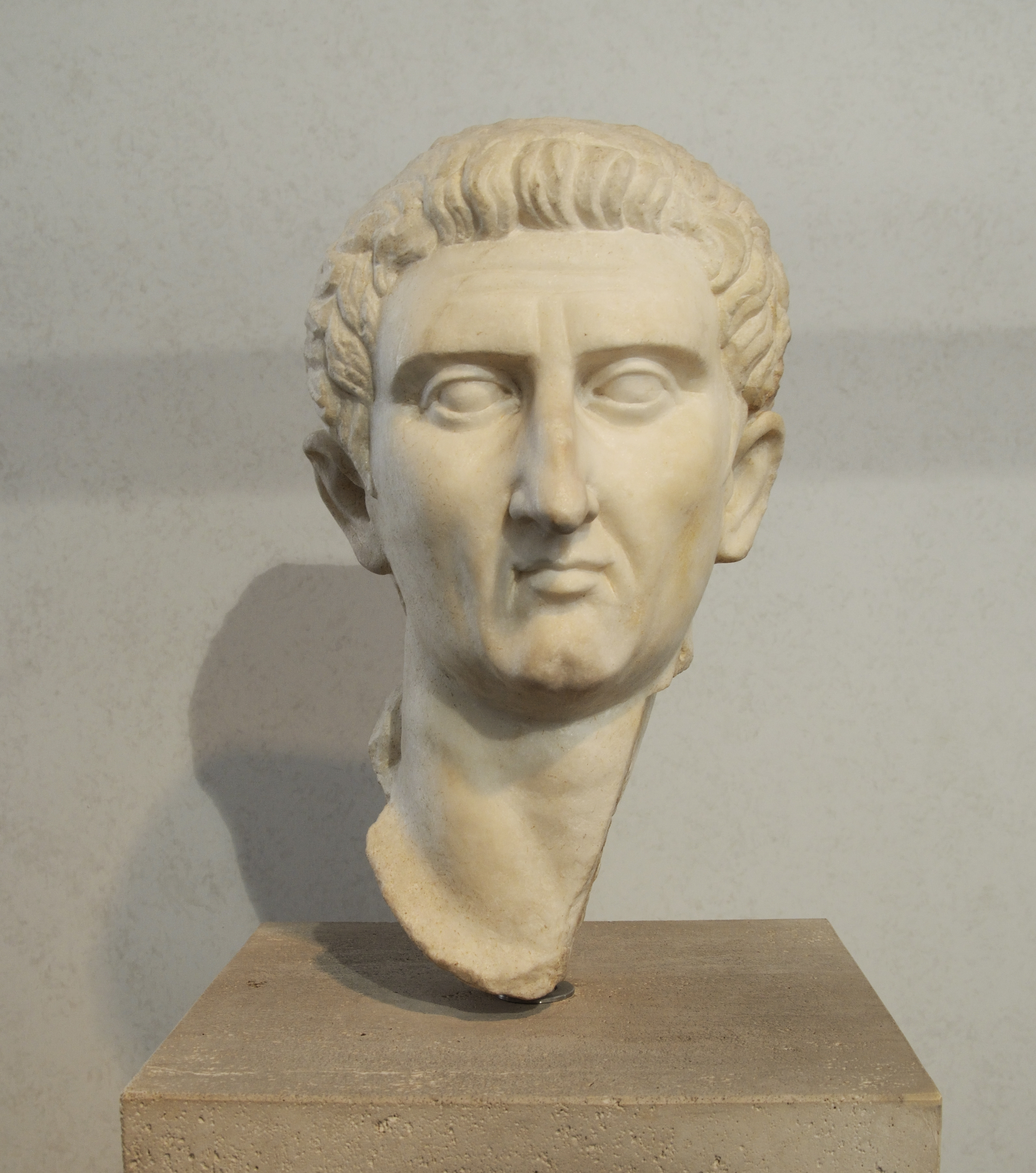 Head of Marcus Cocceius Nerva in Museo Nazionale Romano